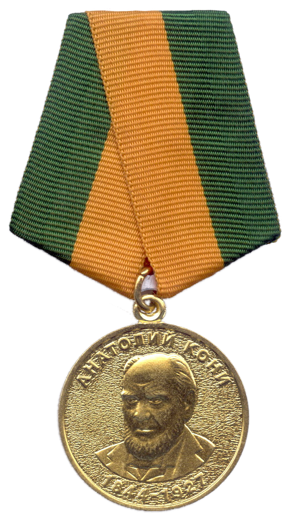 Medal of Anatoly Koni